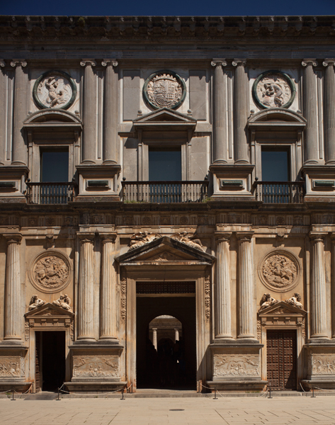 Alhambra; Granada, Andalucía, Granada, Spain; fachada oeste; ref: PM_091086_E_Granada; Palacio de Carlos V; Photographer: Paul M.R. Maeyaert; © Paul M.R. Maeyaert; ; Cultural heritage; Cultural heritage/Palace; Europeana; Europe/Spain/Granada